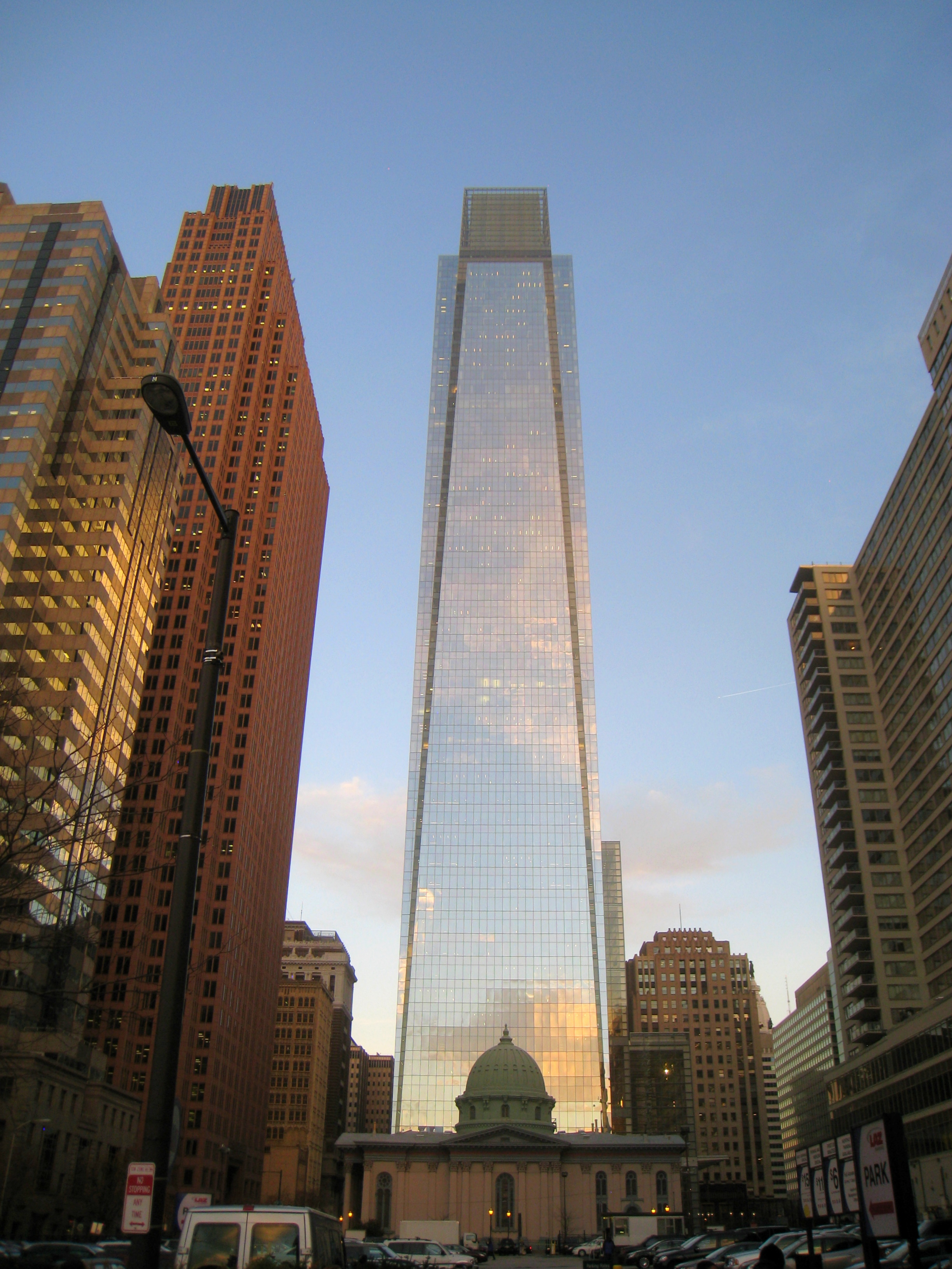 Buildings in Philadelphia, Pennsylvania, USA.